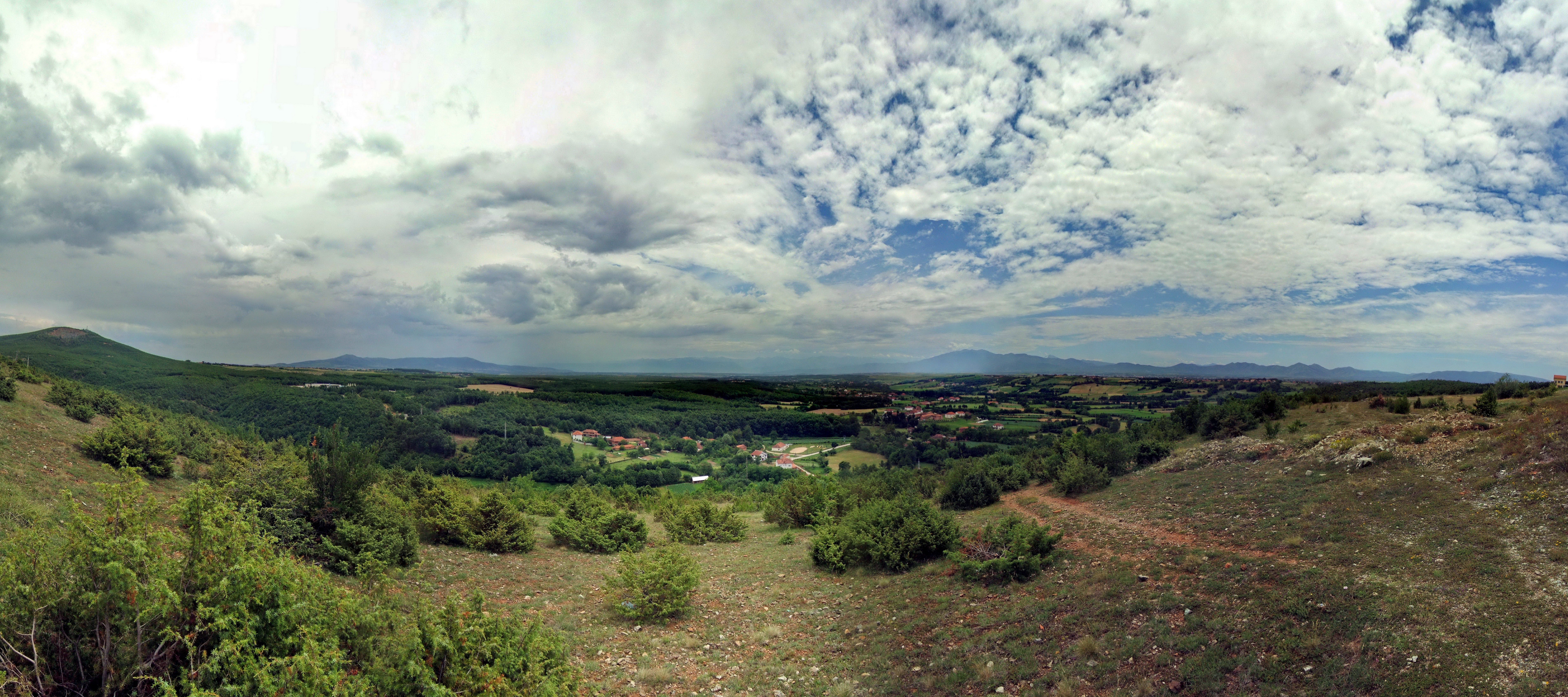 Panorama of the Dukagjin Plain near Radoniq Lake, Kosovo. The shrubs in the foreground are Common Juniper